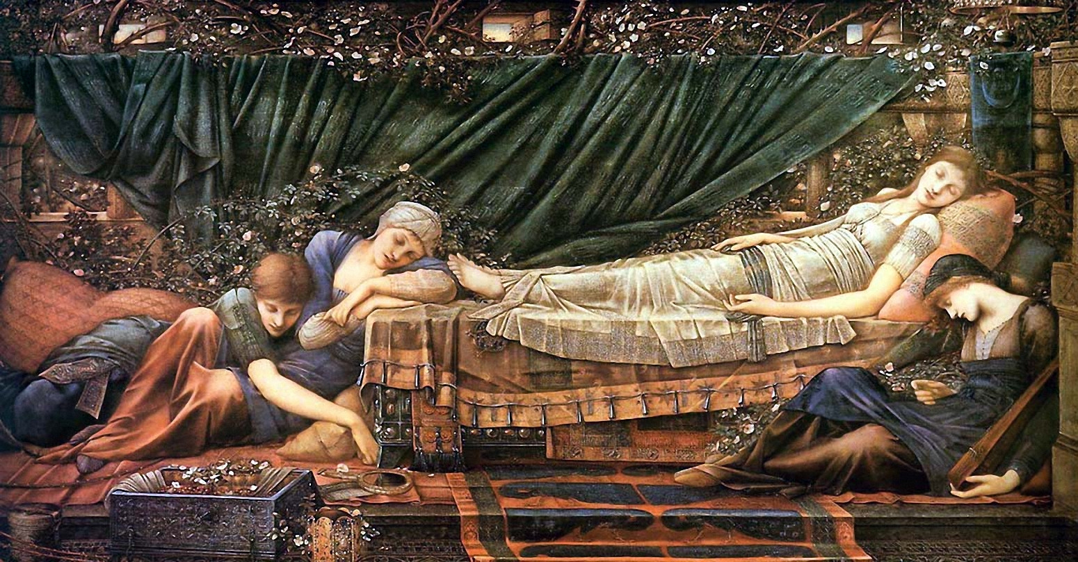 "The Rose Bower" from the "Legend of Briar Rose" by Sir Edward Burne-Jones, located at Buscot Park, Oxfordshire.